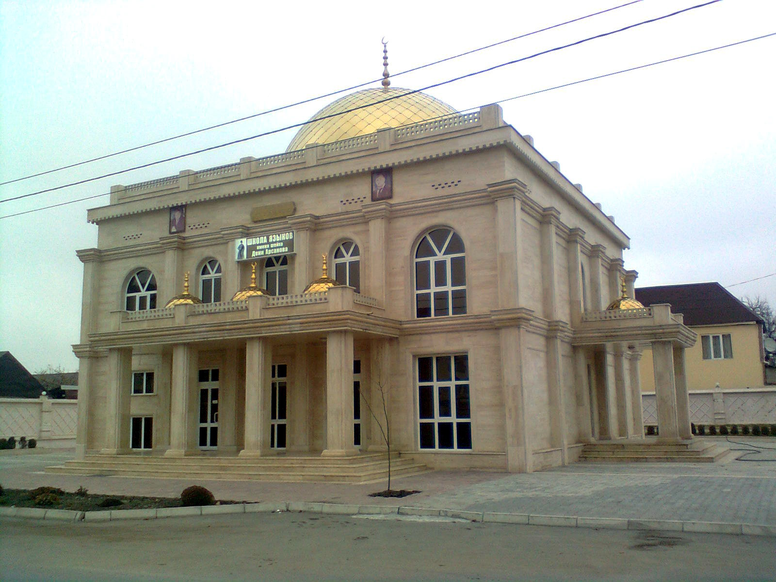 Language school named Deni Arsanov